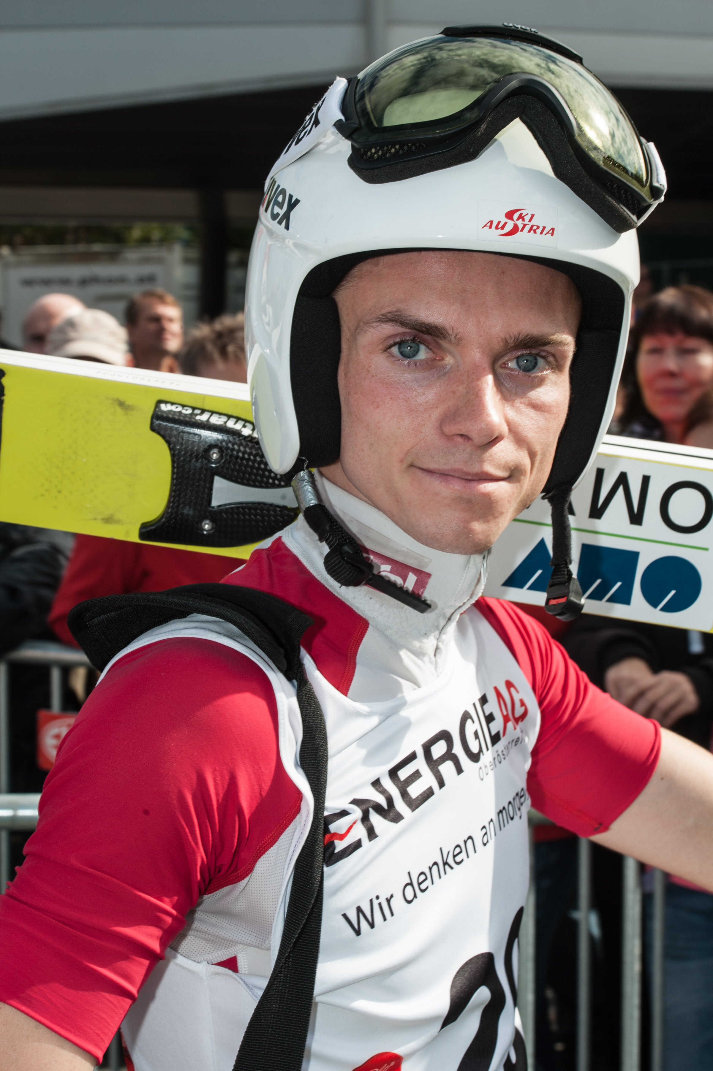 Fis Ski Jumping Summer Grand Prix in Hinzenbach, Upper Austria, 2015-09-27: Manuel Poppinger